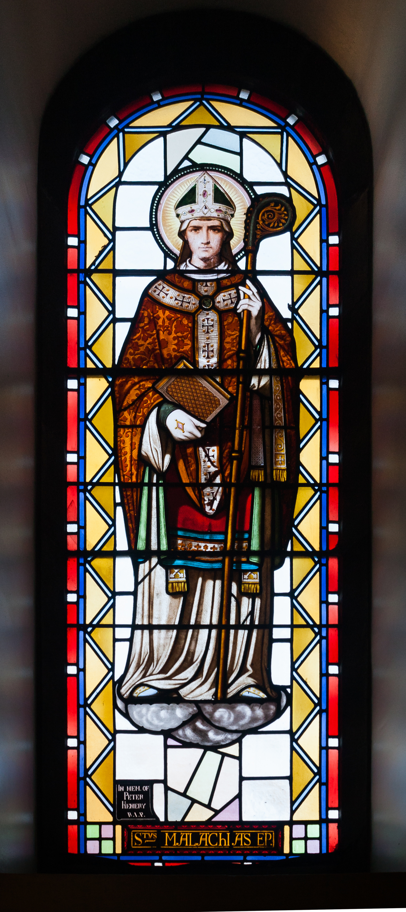 7th stained glass window in the ambulatory (counting from left to right, beginning from the west transept), depicting Saint Malachy. Lucien-Leopold Lobin (1837–1892) DescriptionFrench stained-glass artist and painterDate of birth/death 1837 1892 Location of birth/death Tours ToursWork location Tours Authority control : Q18901086 VIAF: 75593756 LCCN: n97009200 WorldCat creator QS:P170,Q18901086